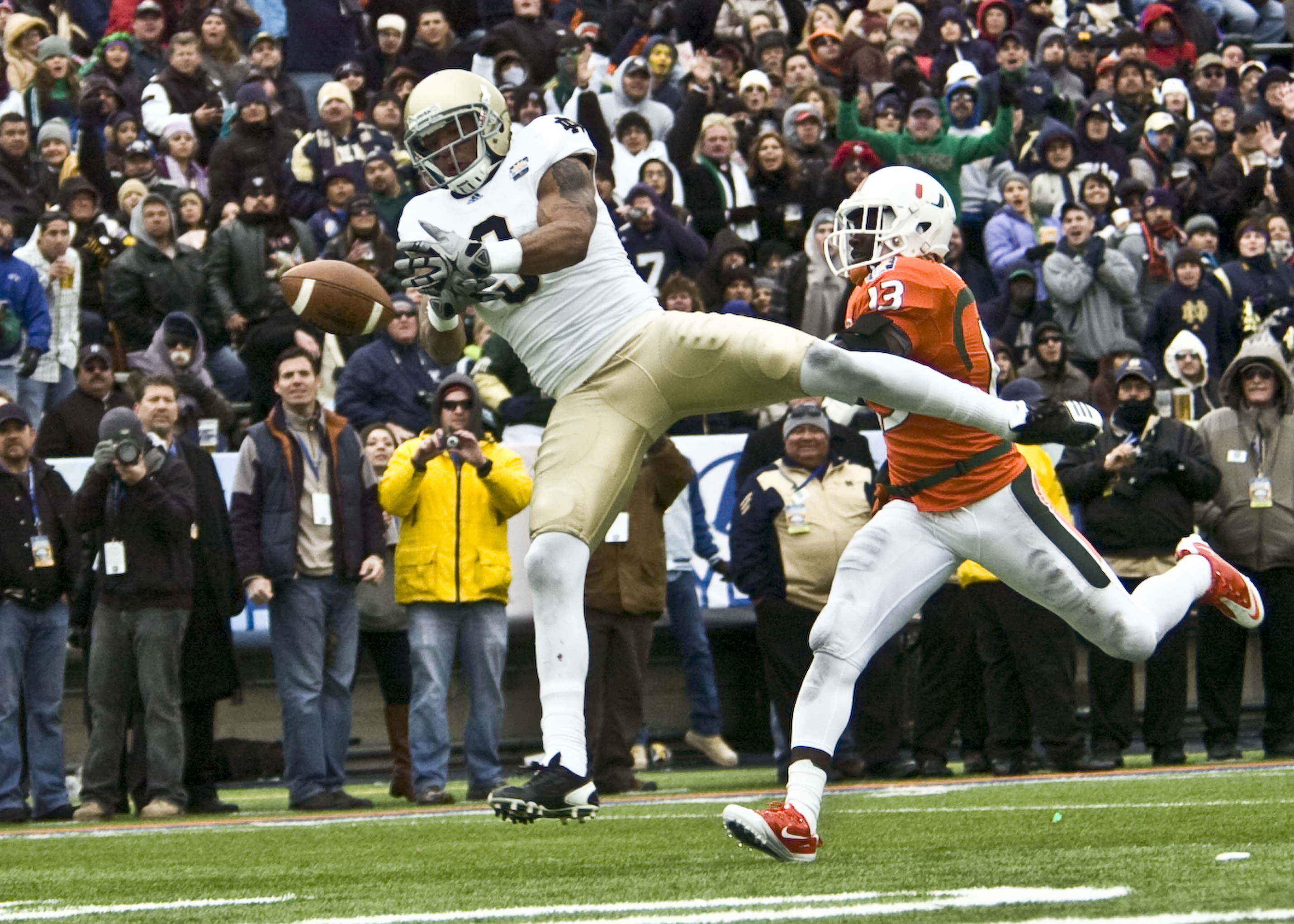 EL PASO, Texas (December 31, 2010) University of Notre Dame wide receiver Michael Floyd battles a University of Miami defensive back for position during the 2010 Hyundai Sun Bowl in El Paso, Dec. 31. Floyd (6 catches, 109 yards, 2 TDs) was named the bowl MVP as the Irish defeated the Hurricanes 33-17.